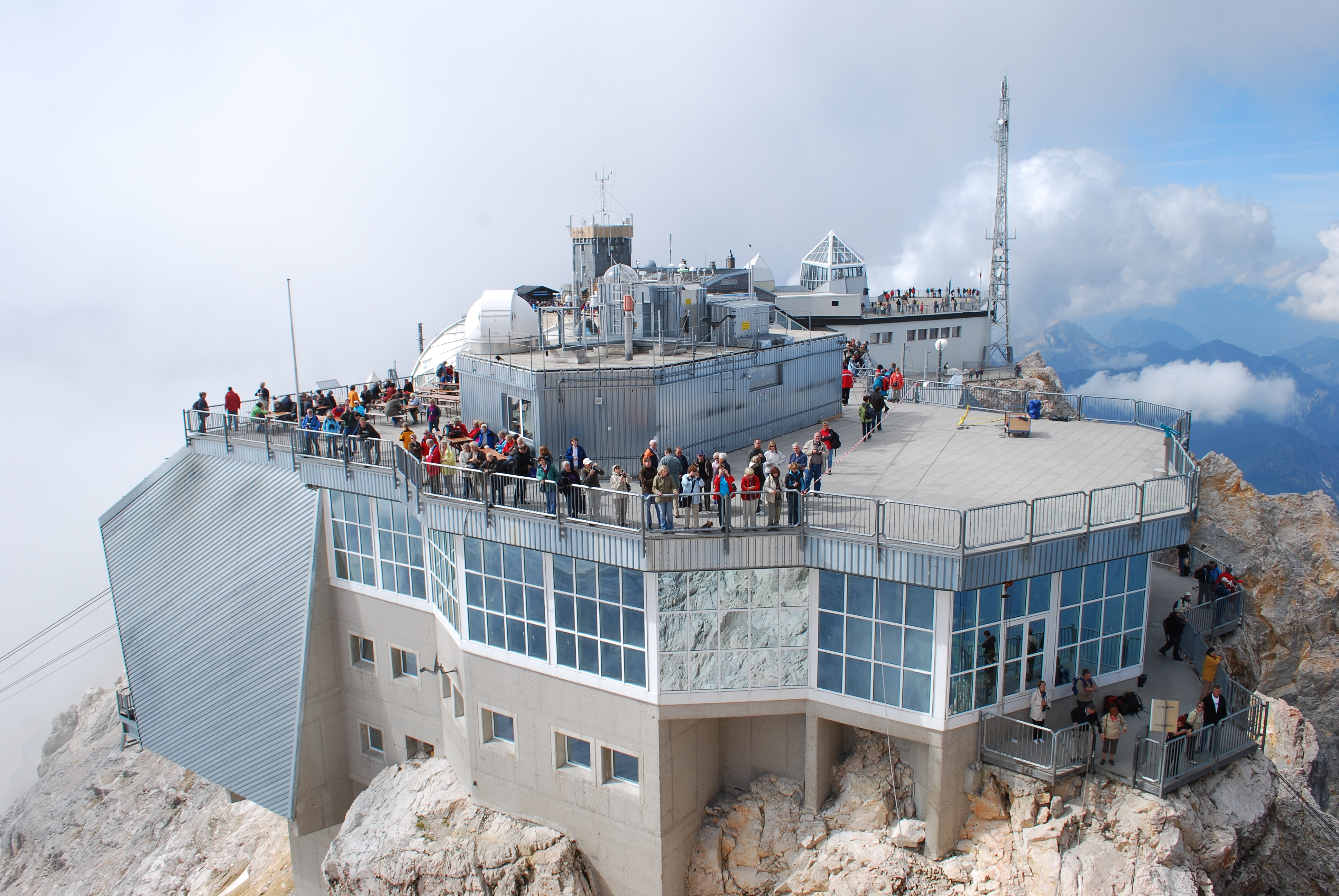 Buildings on top of Zugspitze